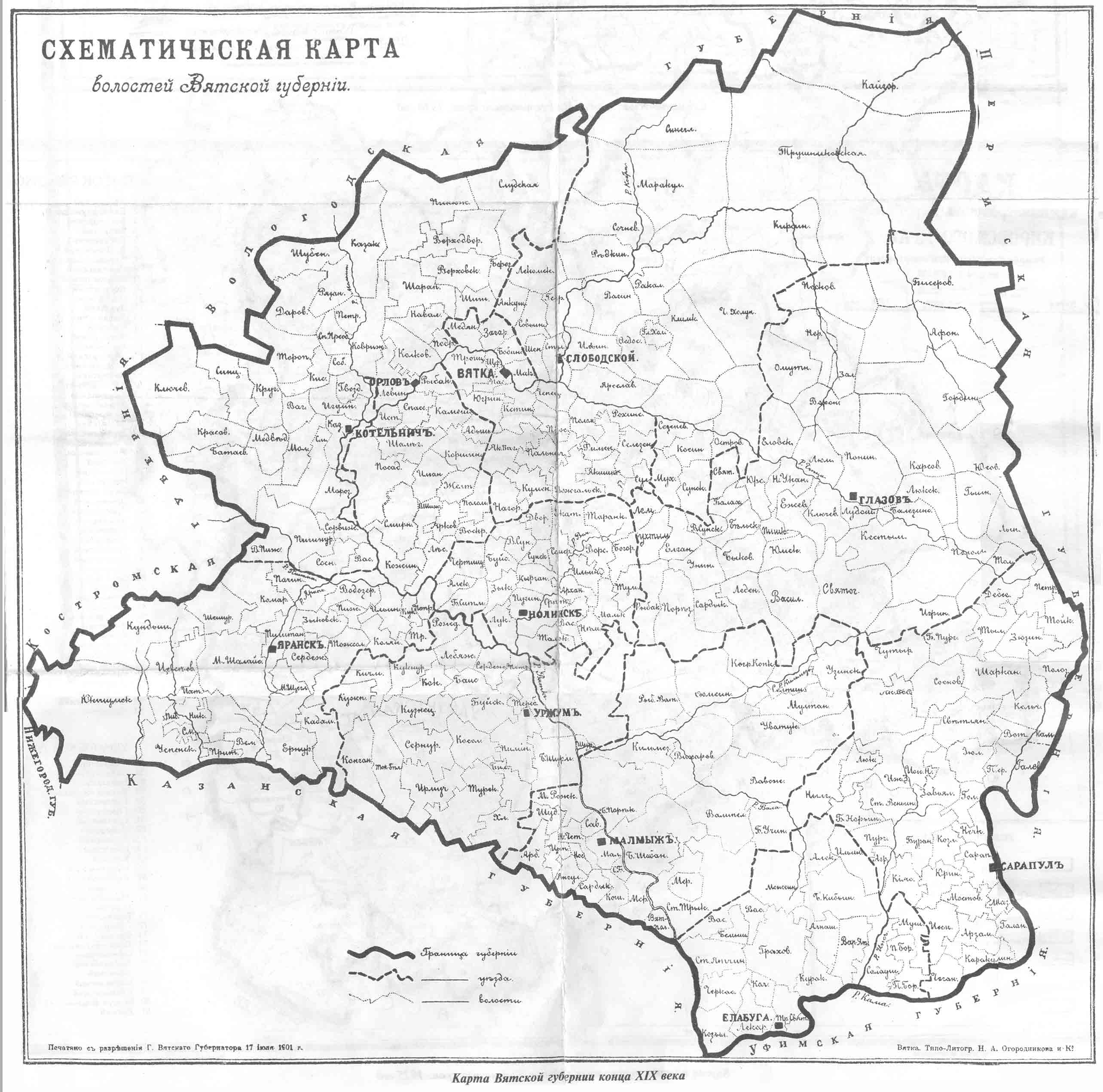 Map of Vyatka Governorate (1901)